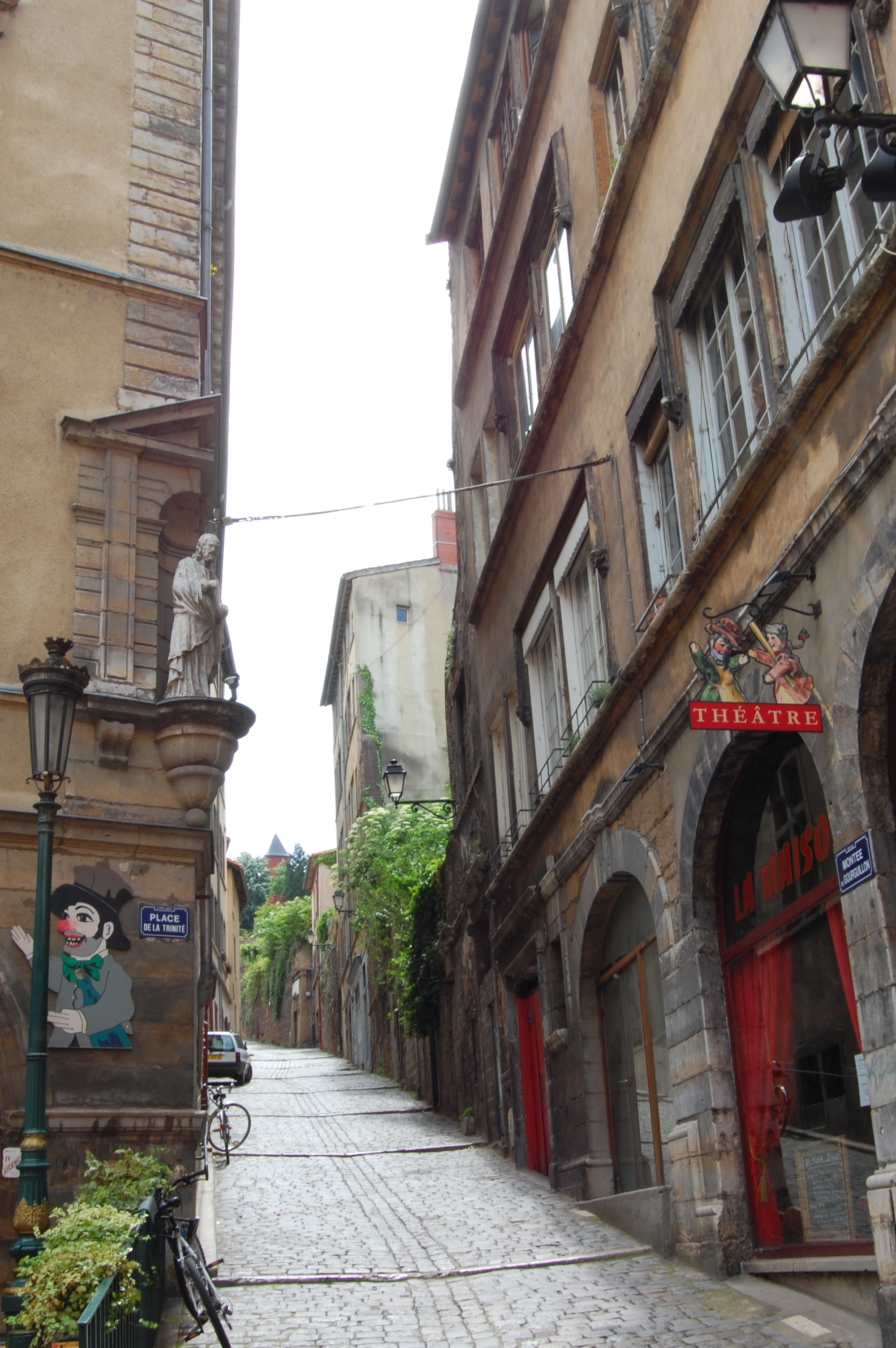 Streets of Lyon